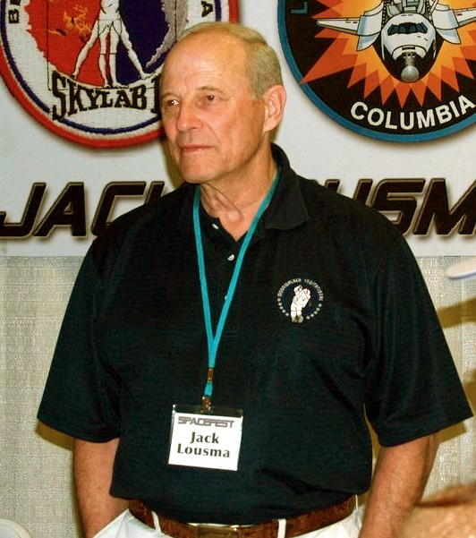 I personally took this photo of NASA astronaut Jack Lousma in San Diego.